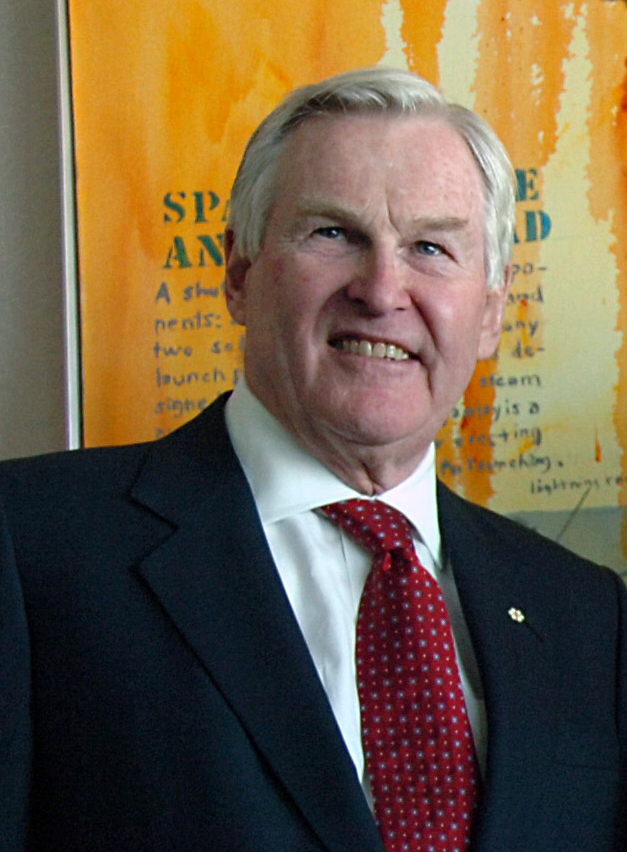 Michael Wilson at the Canadian Embassy in Washington, D.C., United States. Wilson served as the Canadian Ambassador to the United States from 2006 until his replacement by Gary Doer in 2009. Prior to his diplomatic career, Wilson was a Bay Street investment executive in Toronto when he was elected to the Canadian House of Commons as a Progressive Conservative Member of Parliament in the 1979 general election. He served as a Minister in various portfolios in the governments of Joe Clark and Brian Mulroney.